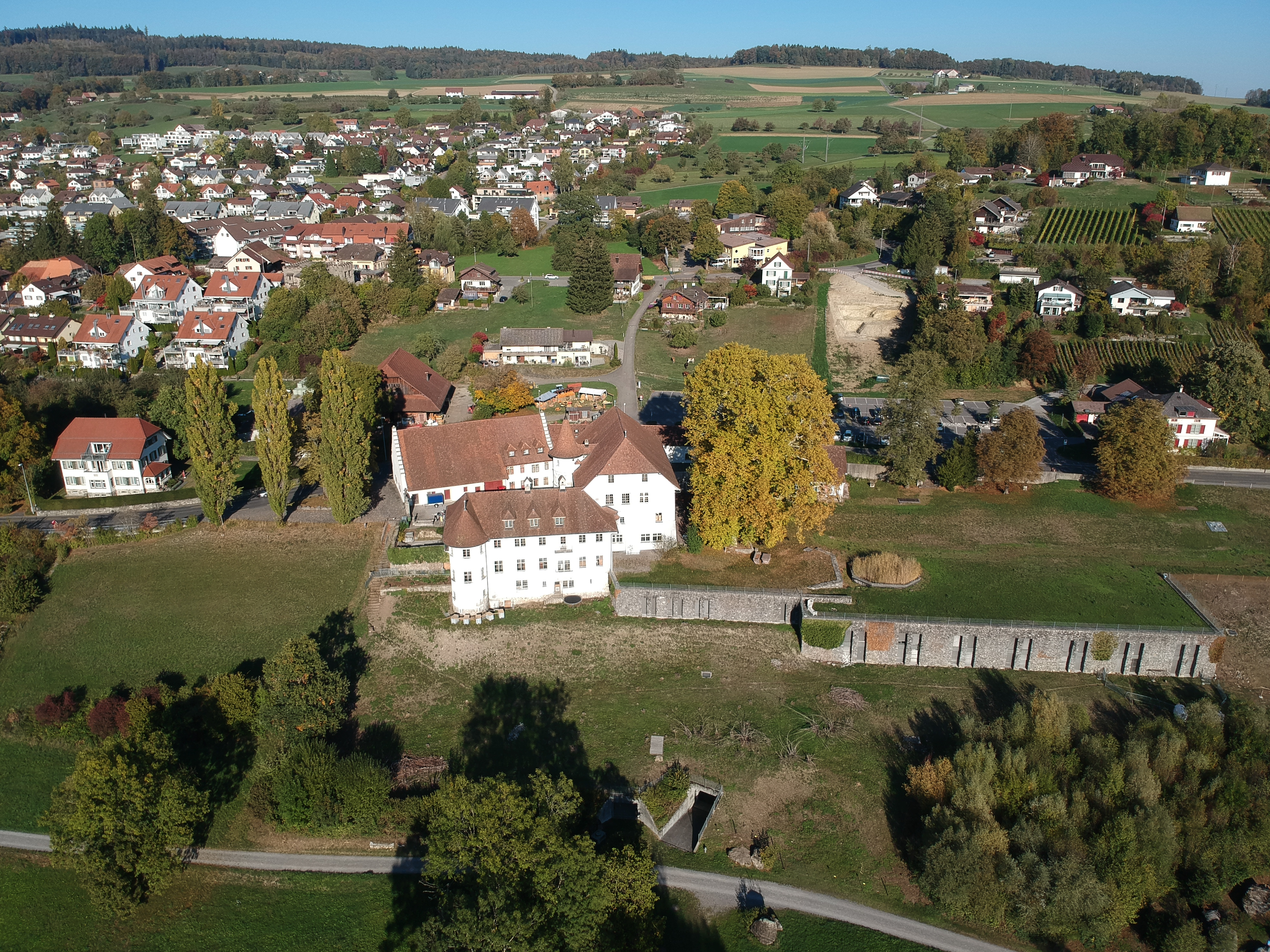 Brestenberg castle, aerial view